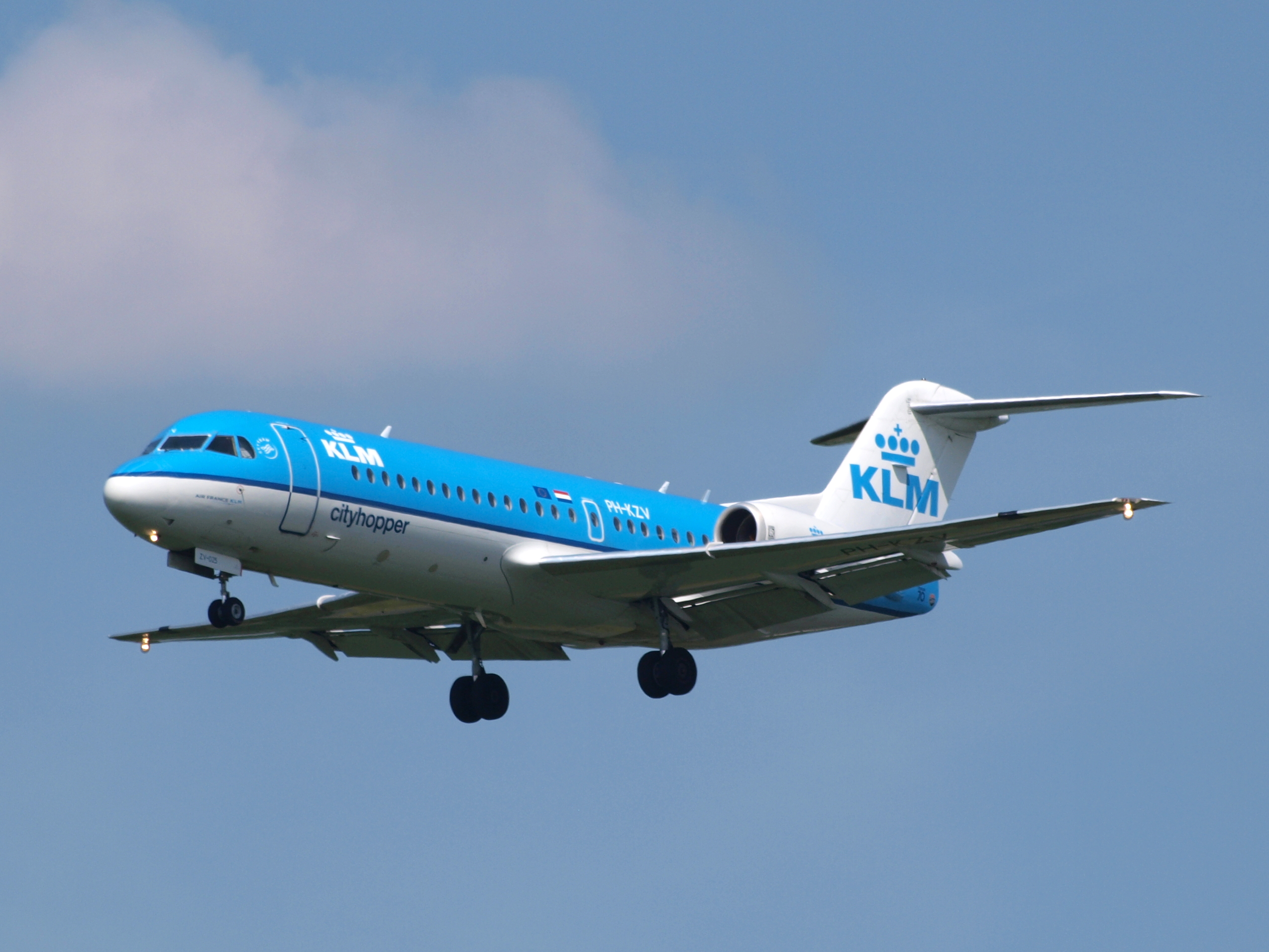 Photographed at Amsterdam airport Schiphol, the Netherlands.